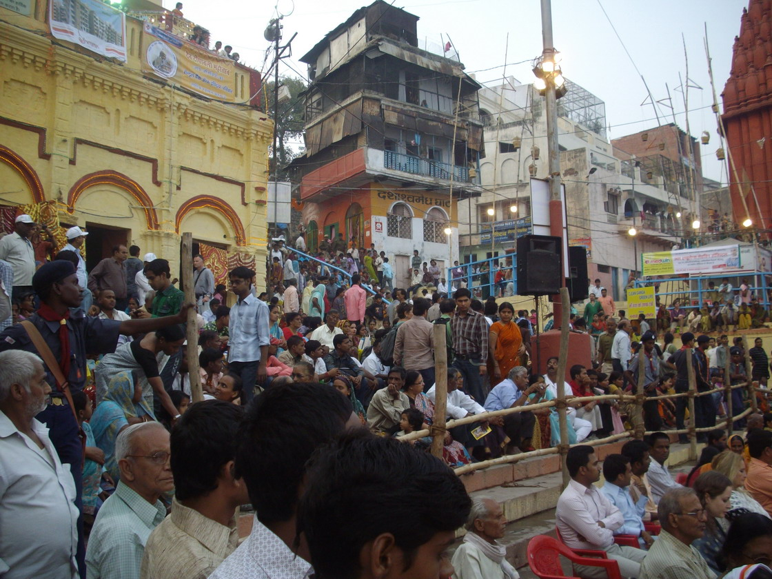 Dev Deepavali celebrations at Dasaswamedh Ghat on Karthik Purnima in Varanasi.(Thursday 10-11-2011)